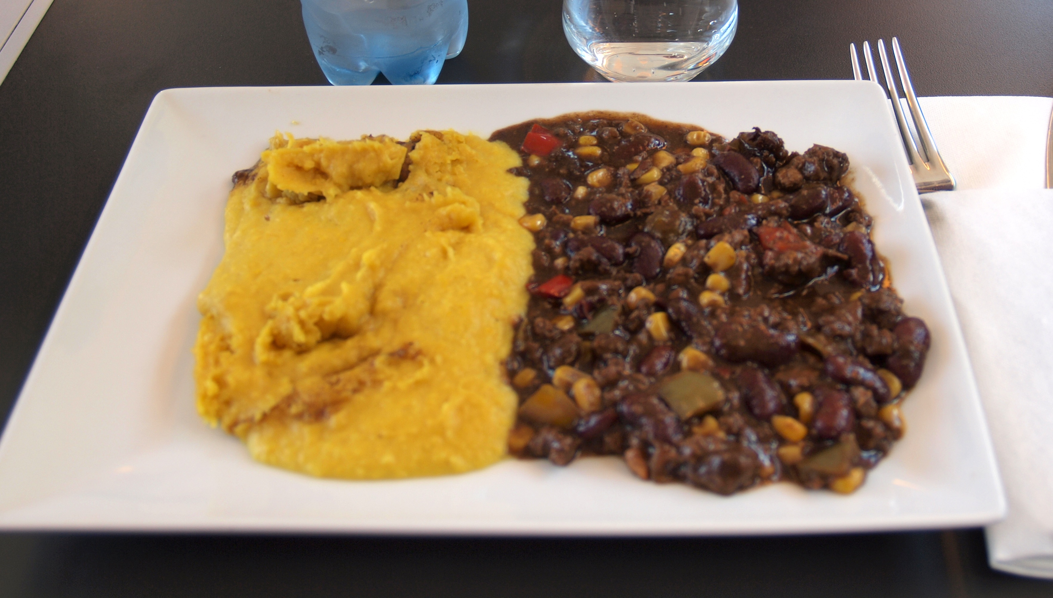 A plate of chili con carne with mashed corn, and a bottle of Vöslauer mineral water, aboard an Austrian RailJet train from Vienna to Pörtschach am Wörther See.